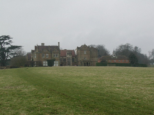 Fawsley Hall. A magnificently restored hall. Now a hotel.